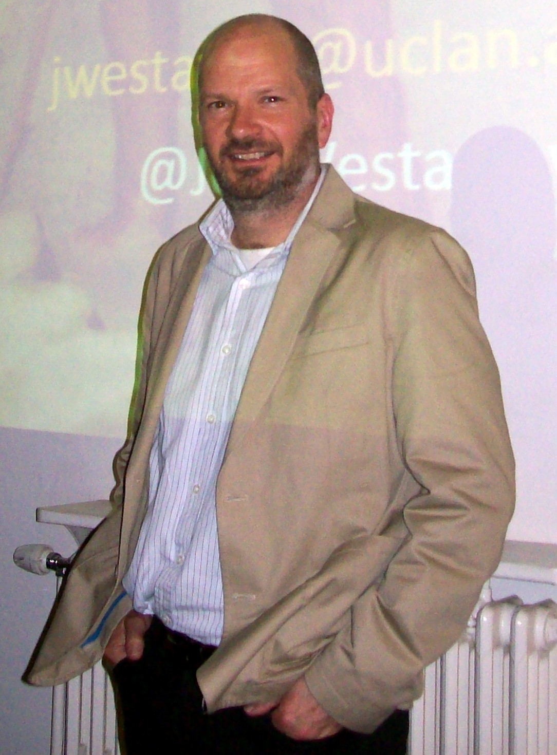 Composer Simon Bainbridge speaking in 2014.